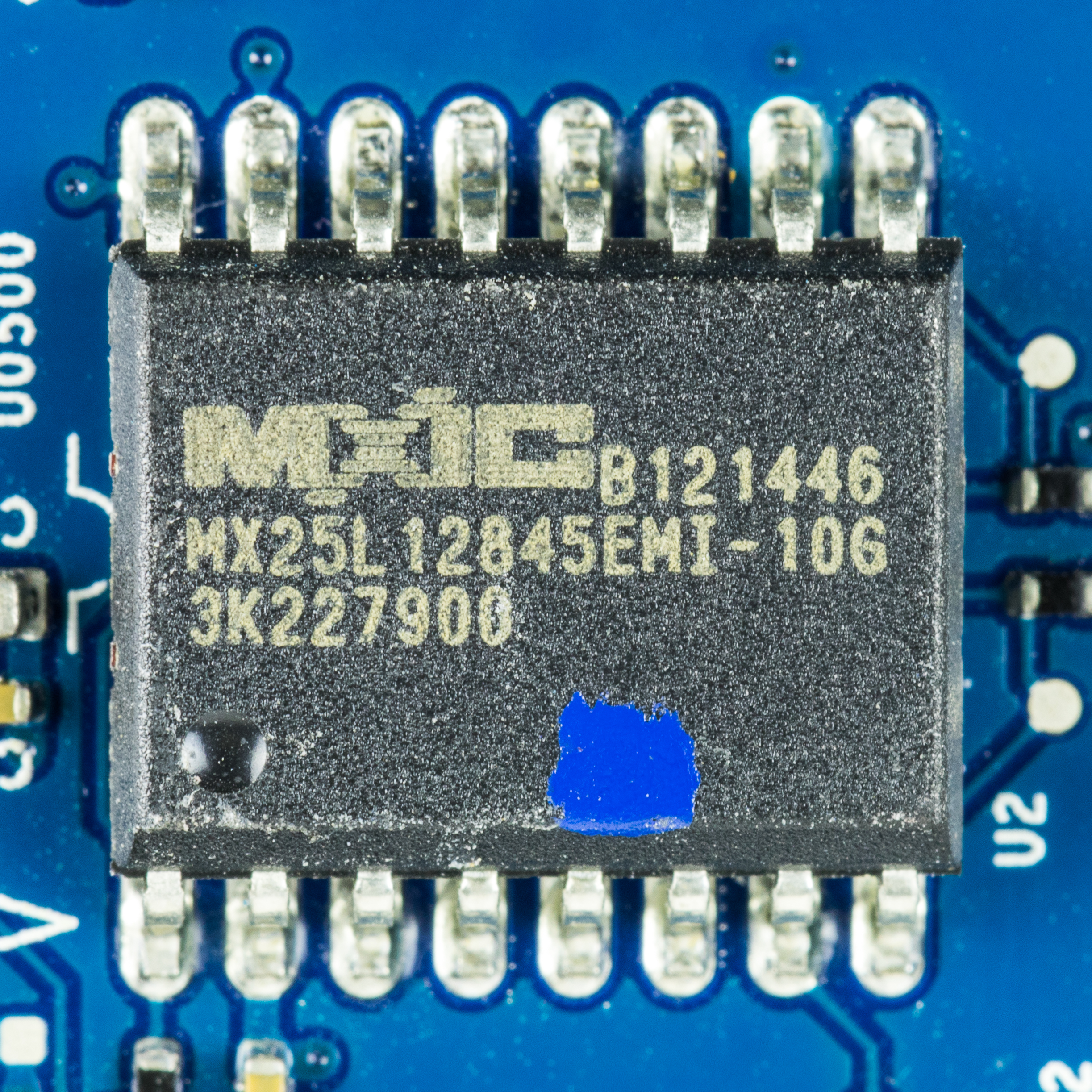 Apple AirPort Extreme Base Station (A1408) - controller board - Macronix MX25L12845EMI-10G - 128M-BIT [x 1/x 2/x 4] CMOS MXSMIO (Serial Multi I/O) Flash Memory. Package: 16-pin SOP